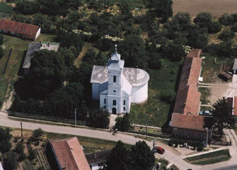 Győrtelek, Hungary, aerialphotography This is a photo of a monument in Hungary, Identifier: 8243